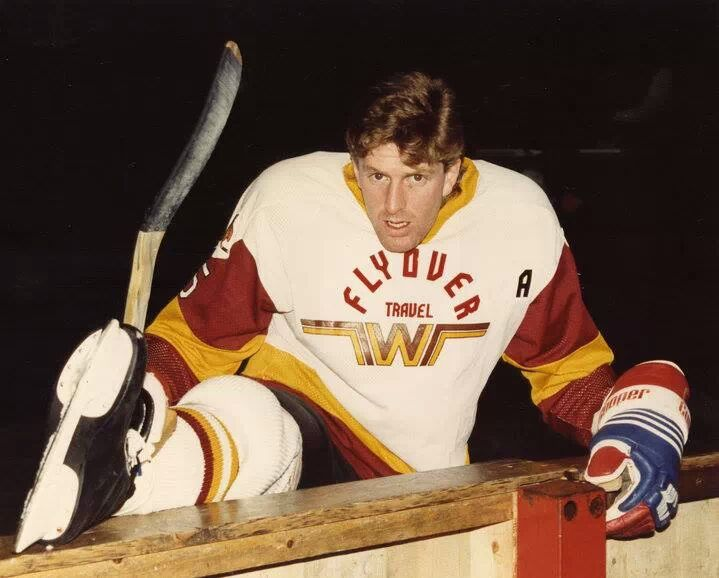 Mike Babcock Player/Coach Whitley Warriors UK 1987